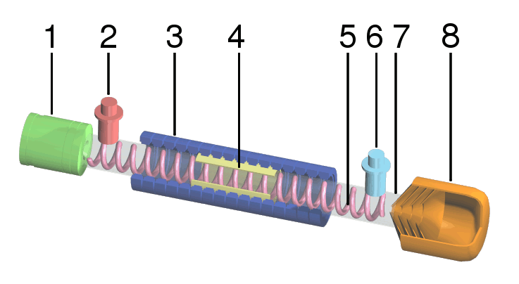 Illustration of a Travelling wave tube amplifier created by Wapcaplet using Blender and the GIMP. Electron gun RF input Magnets Attenuator Helix coil RF output Vacuum tube Collector.